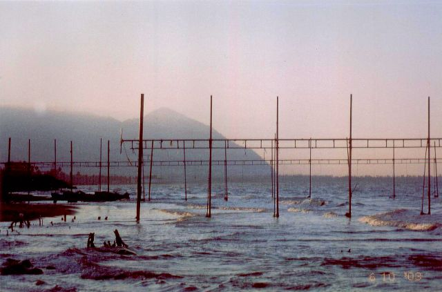 Caspian Sea at Ramsar (Iran)